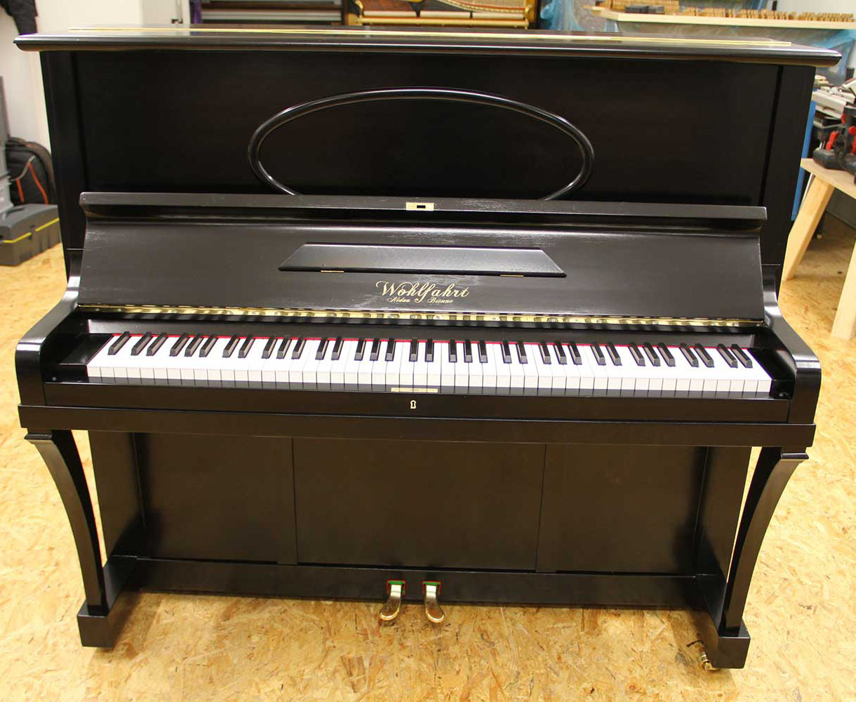 Piano Wohlfahrt